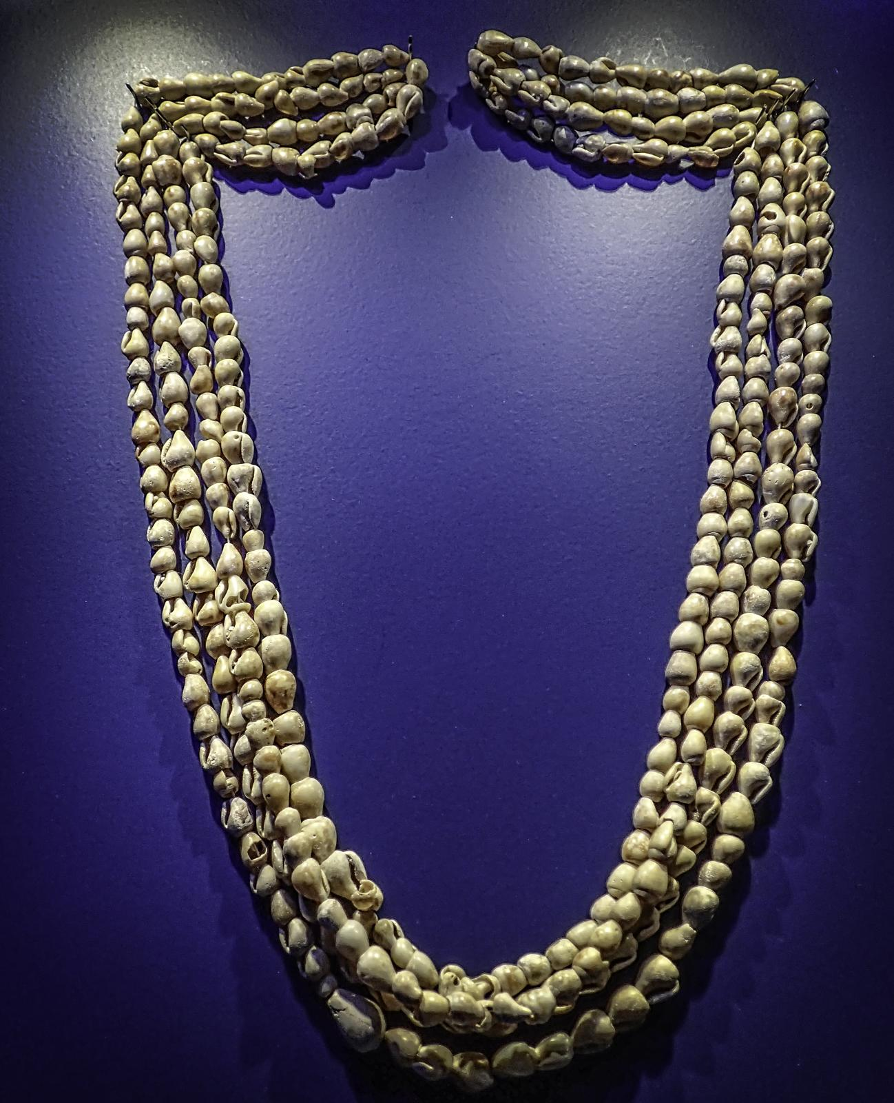 Columbella Rustica snail shell necklace from Tepe Gawra (modern day Iraq) 4000 BCE The "Indiana Jones and the Adventure of Archaeology" exhibit also included real artifacts excavated in regions visited by the ficitional Indiana Jones in the feature film series. These artifacts were recovered from expeditions by researchers from the University of Pennsylvania who provided them to National Geographic for the exhibition. Photographed at the "Indiana Jones and the Adventure of Archaeology" exhibit at the National Geographic Museum in Washington D.C.